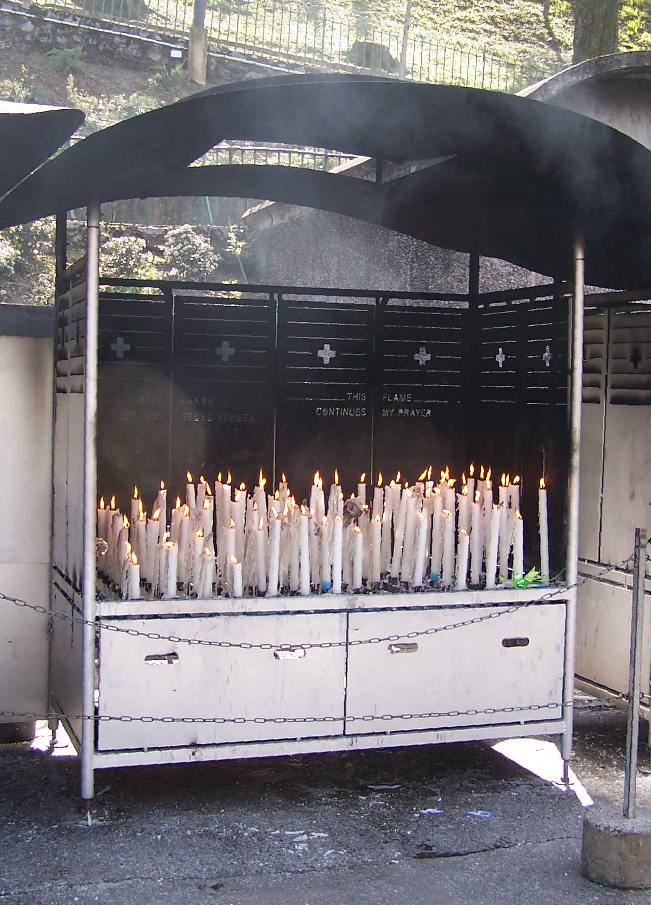 A bruliere, a stand for burning devotional candles in the Sanctuary of Our Lady of Lourdes. Kodak DX6490 digital camera.